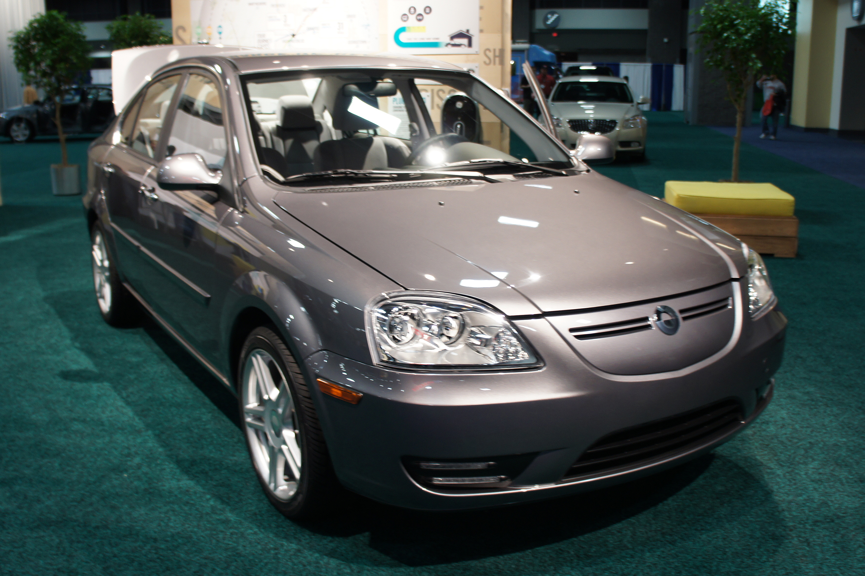 CODA electric car exhibited at the 2012 Washington Auto Show, District of Columbia.